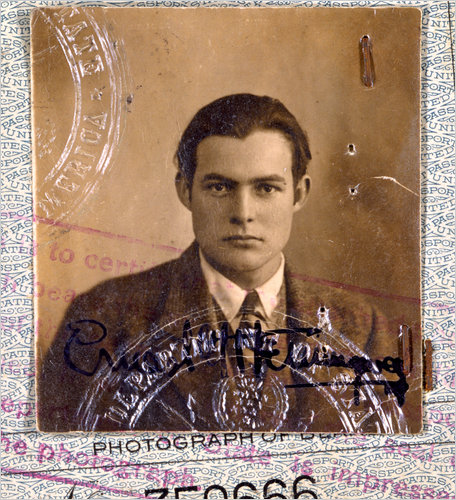 Ernest Hemingway 1923 passport photo